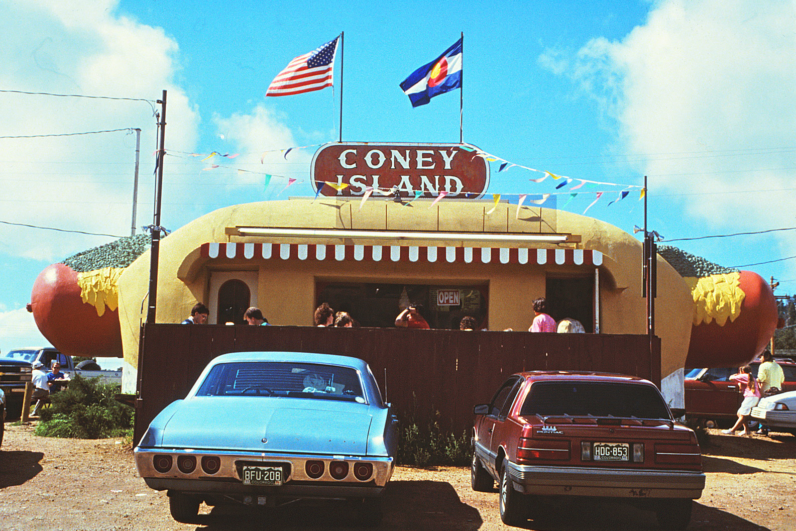 Coney Island Hot Dog Stand in Aspen Park, Colorado, photographed in 1991.